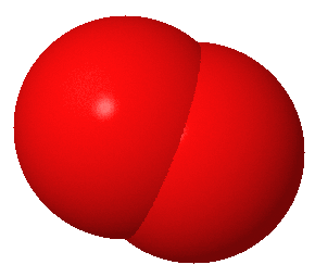 Space-filling model of the oxygen molecule (O2) created with Jmol (